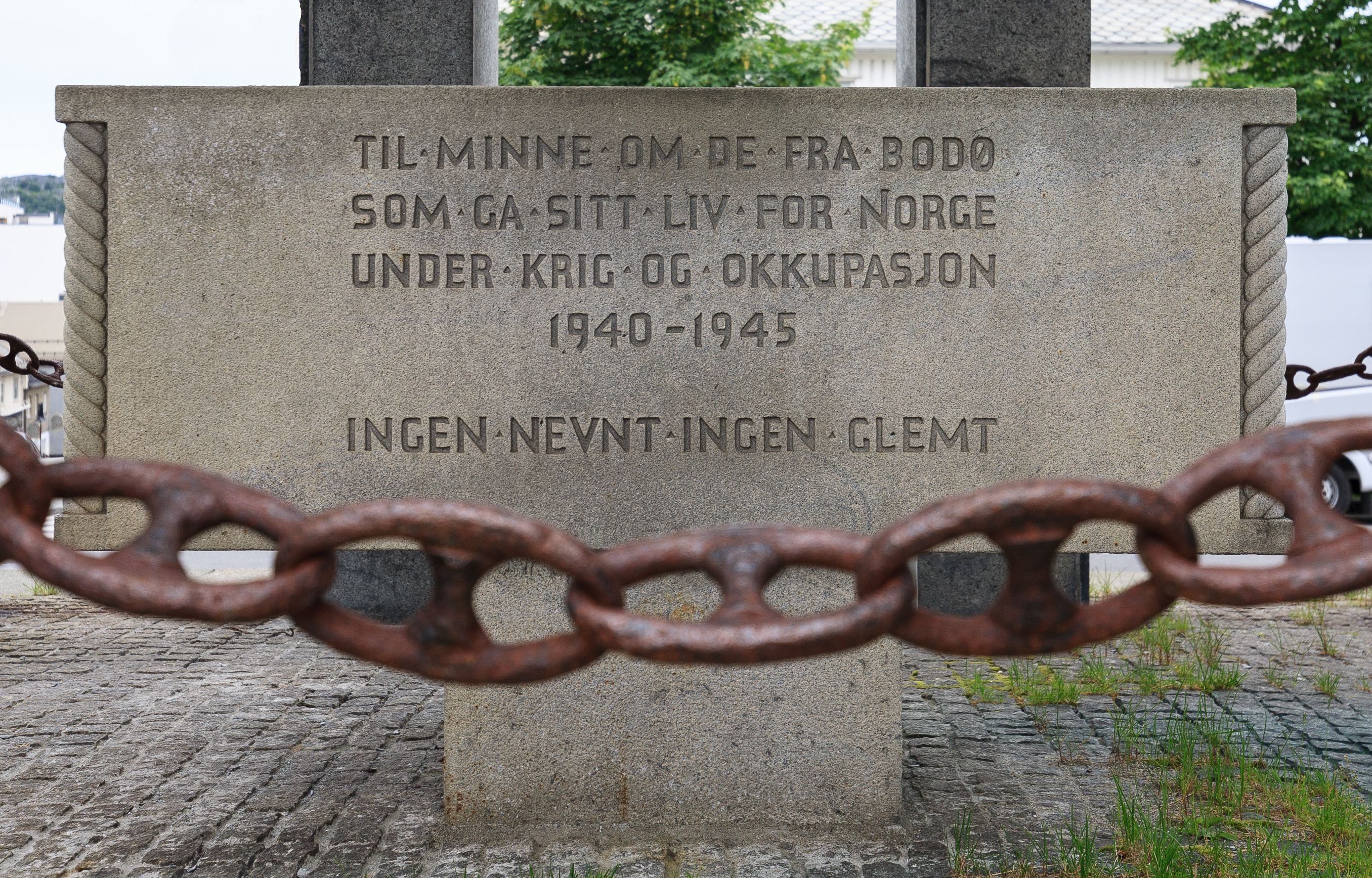 Memorial plague in the bell tower of the cathedral of Bodø. "In memory of those from the Bodo who gave their lives to Norway during war and occupation 1940-1945 Not named, not forgotten"